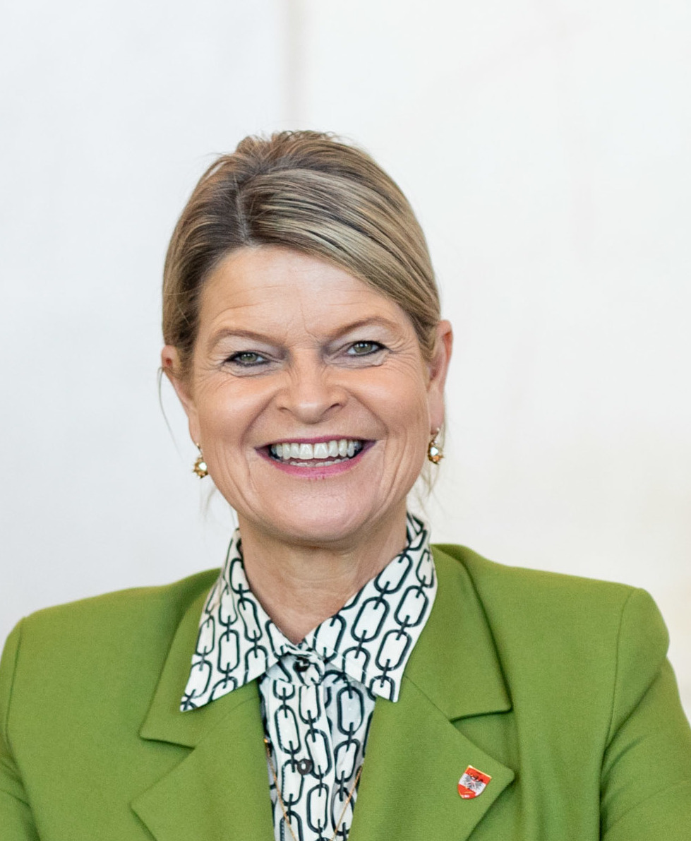 Fotocredit: BKA